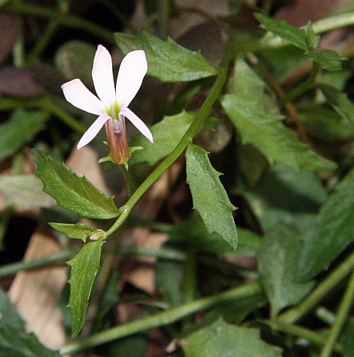 Pratia_purpurascens, my garden in Sydney